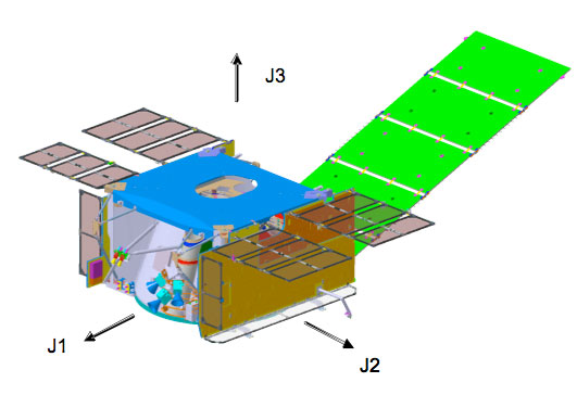 The spacecraft bus provides the necessary support functions for the operation of the Webb Observatory. At left is a top view of the bus.